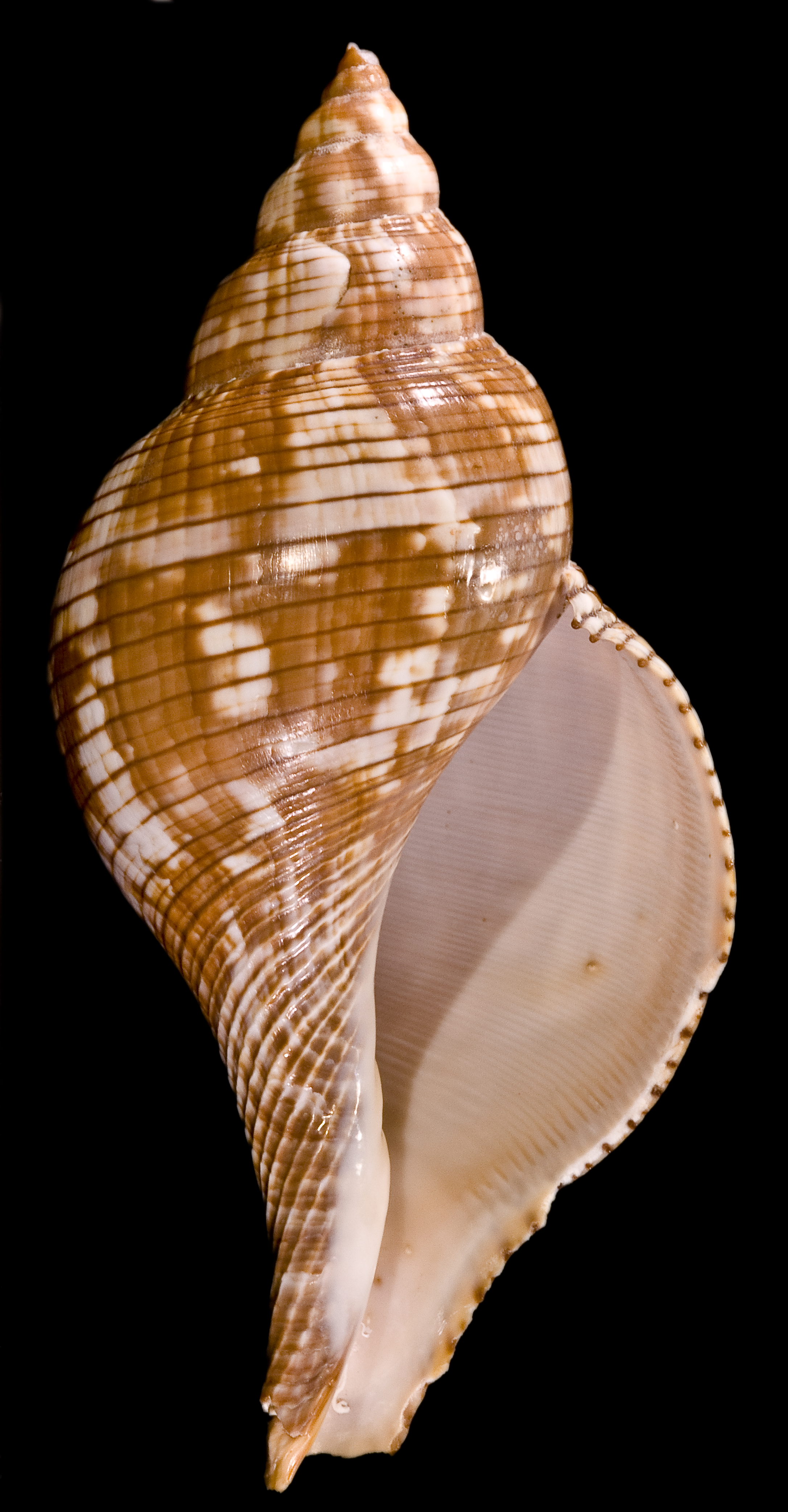 Apertural view of the shell of Fasciolaria tulipa. Size : Height of the shell is 15 cm.